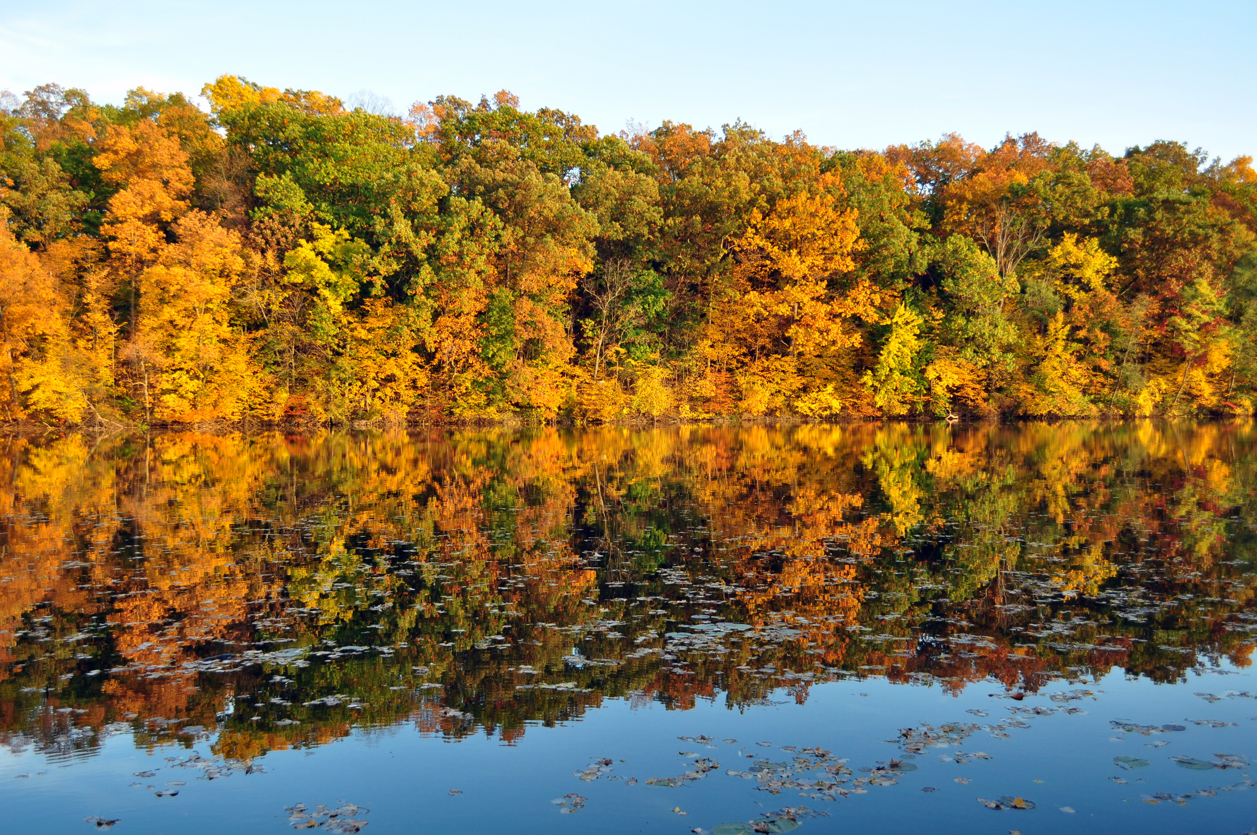 The Huron River within the Ann Arbor area. 2010